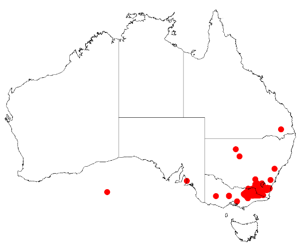 Acacia kettlewelliae Occurrence data from Australasia Virtual Herbarium downloaded from on 8 December 2018